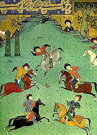 Polo game (chovgan) - miniature form Tabriz. Now in Sankt-Peterburg (Russia)